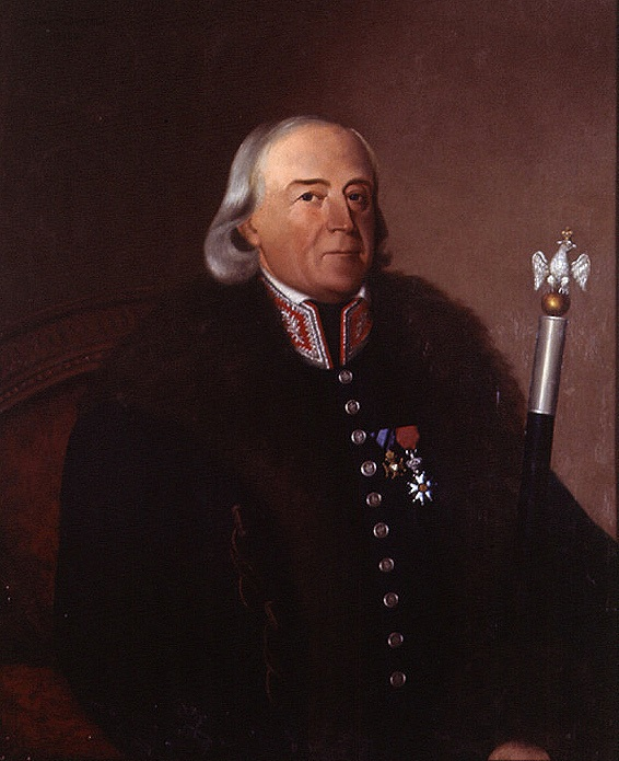 Speaker of Polish Sejm 1831